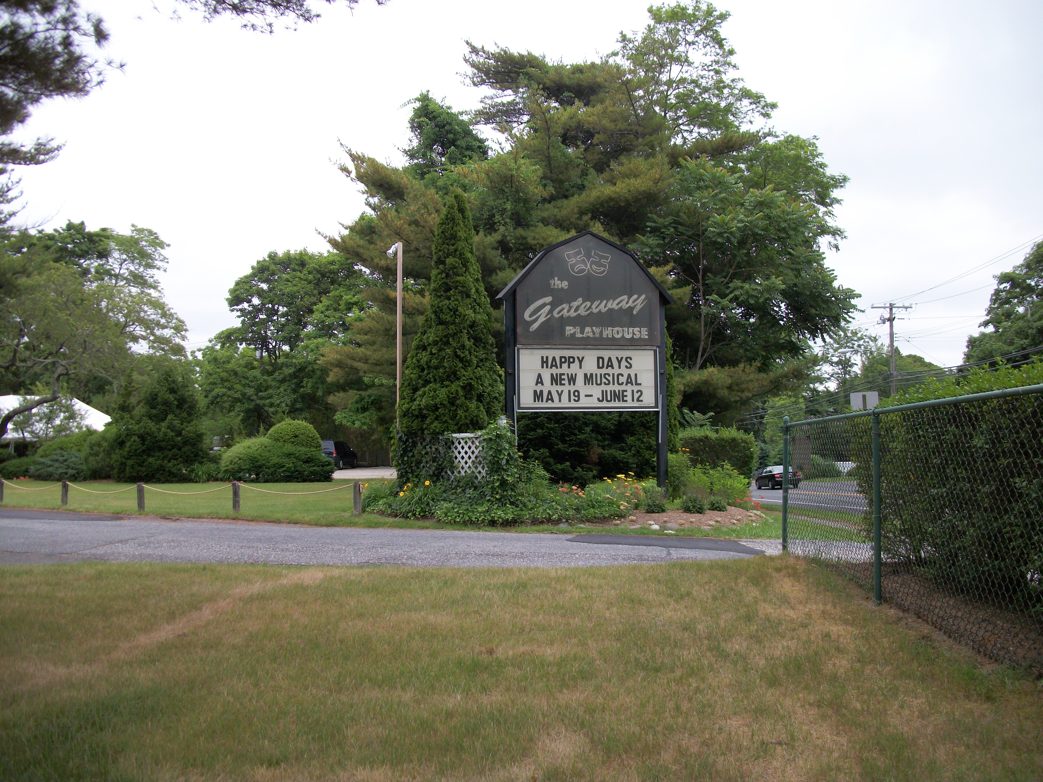 Sign for the Gateway Playhouse on Suffolk County Road 36 (South Country Road) in Bellport, New York.